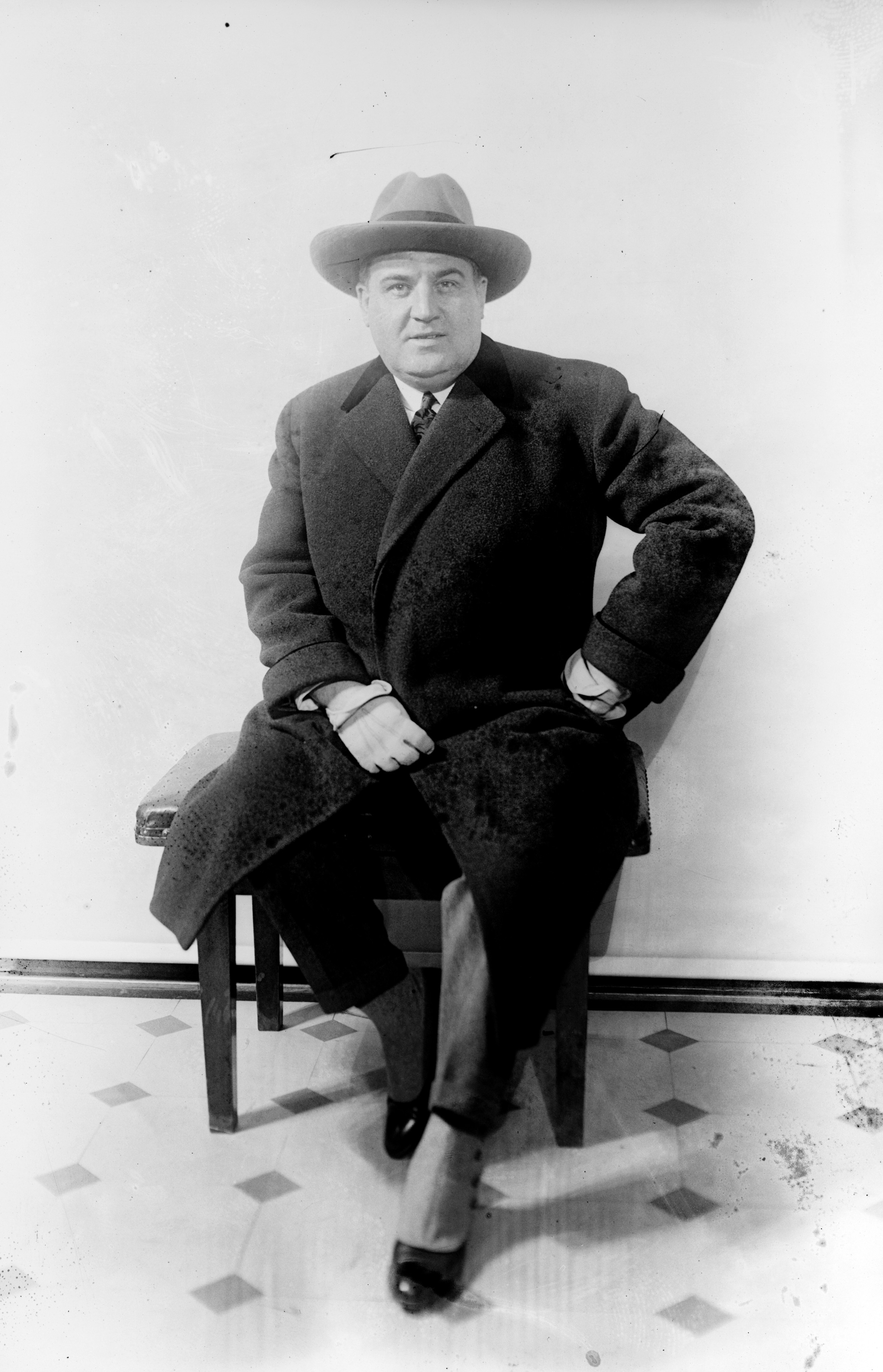 Alfred Piccaver (1884 - 1958), British-American operatic tenor